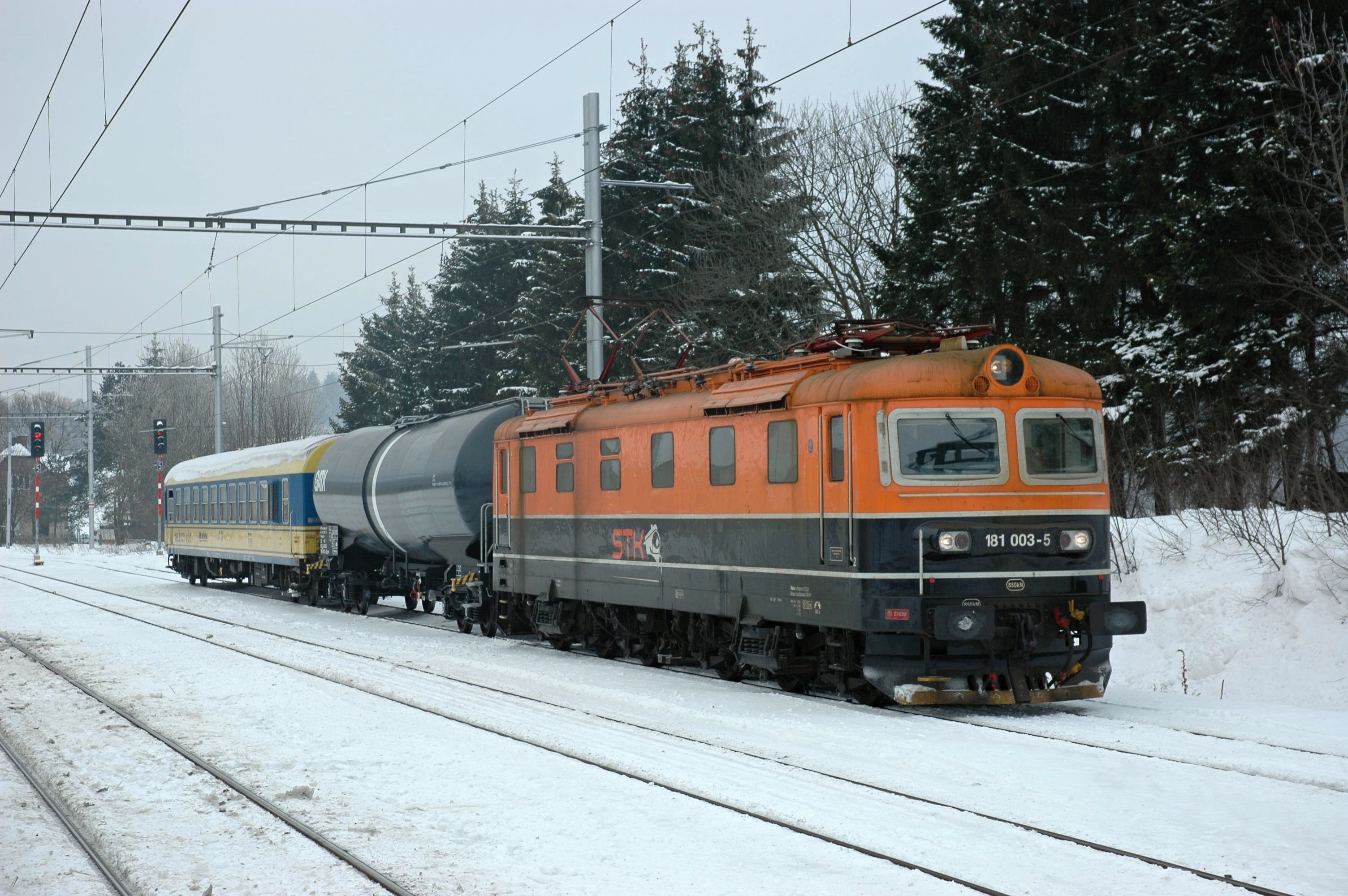 Locomotive 181.003 of ČD Cargo (hired to STK) + prototype tank wagon Zacns No. 33 85 784 0001-6 CH-GATXD + measuring car No. 60 54 09-80 003-0 of VÚKV; the train is going from the Velim Test Centre (CZ) to the Test Track Centre near Żmigród; the photo was taken at the Lichkov station